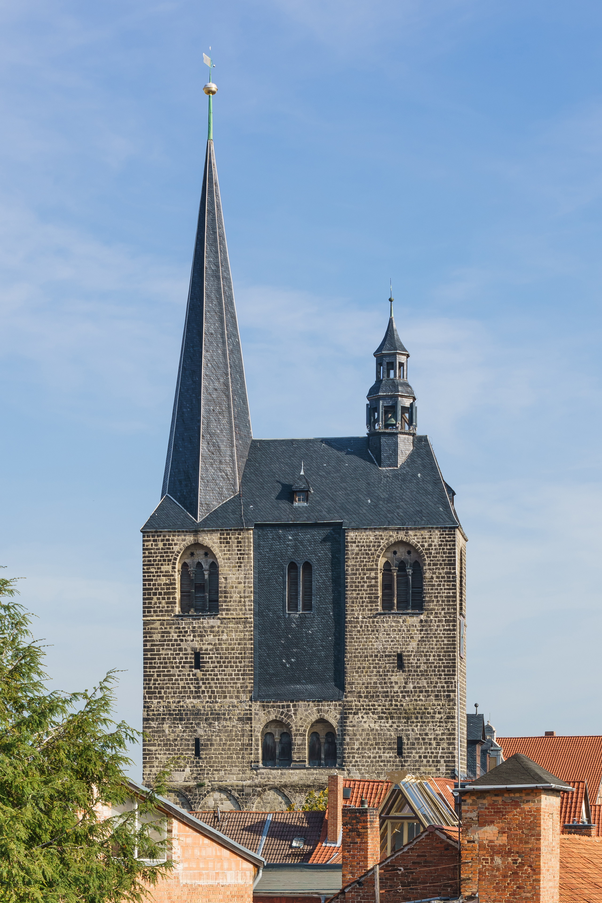 St. Benedict Church in Quedlinburg, Germany